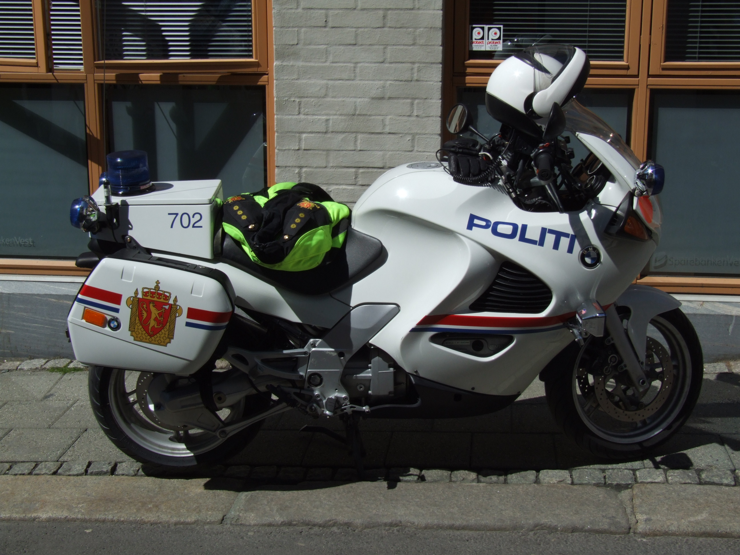 Motorcycle of Police in Bergen, Norway